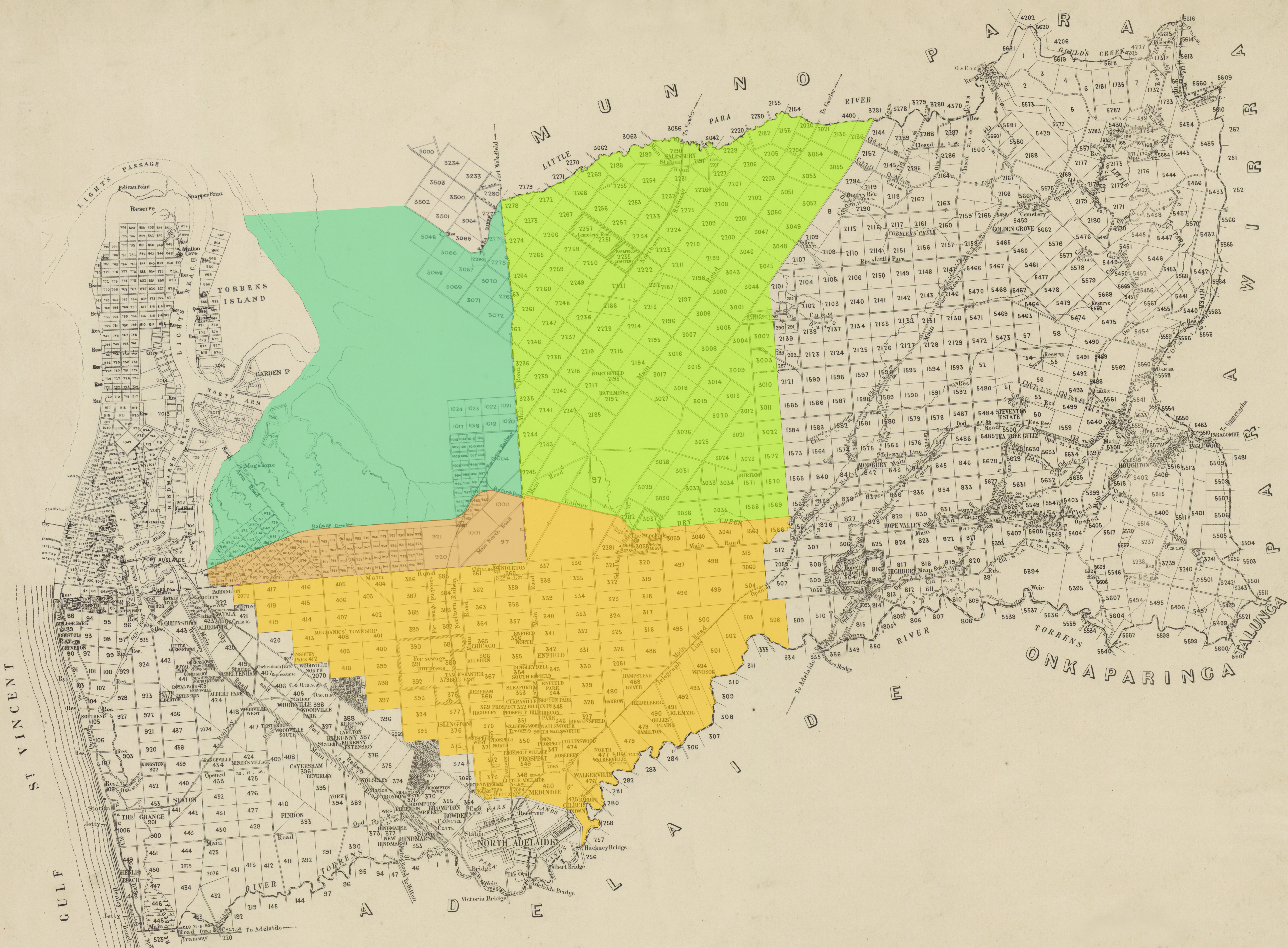 Map showing boundaries of Yatala North and Yatala South district councils immediately after the 1868 split of the original District Council of Yatala, superimposed on maps of the Hundred of Yatala (1896) and Hundred of Port Adelaide (1884). The portion of Yatala North in the Hundred of Port Adelaide is shaded in cyan and the portion of Yatala North in the Hundred of Yatala is shaded in green. The portion of Yatala South in the Hundred of Port Adelaide is shaded in orange and the portion of Yatala South in the Hundred of Yatala is shaded in yellow. Image based on boundary description in SA Government Gazette, 18 June 1868 page 816 ( and two public domain images: ("Hundred of Yatala, 1896 (23700943431).jpg") and ("Hundred of Port Adelaide, 1884 (23703210671)").